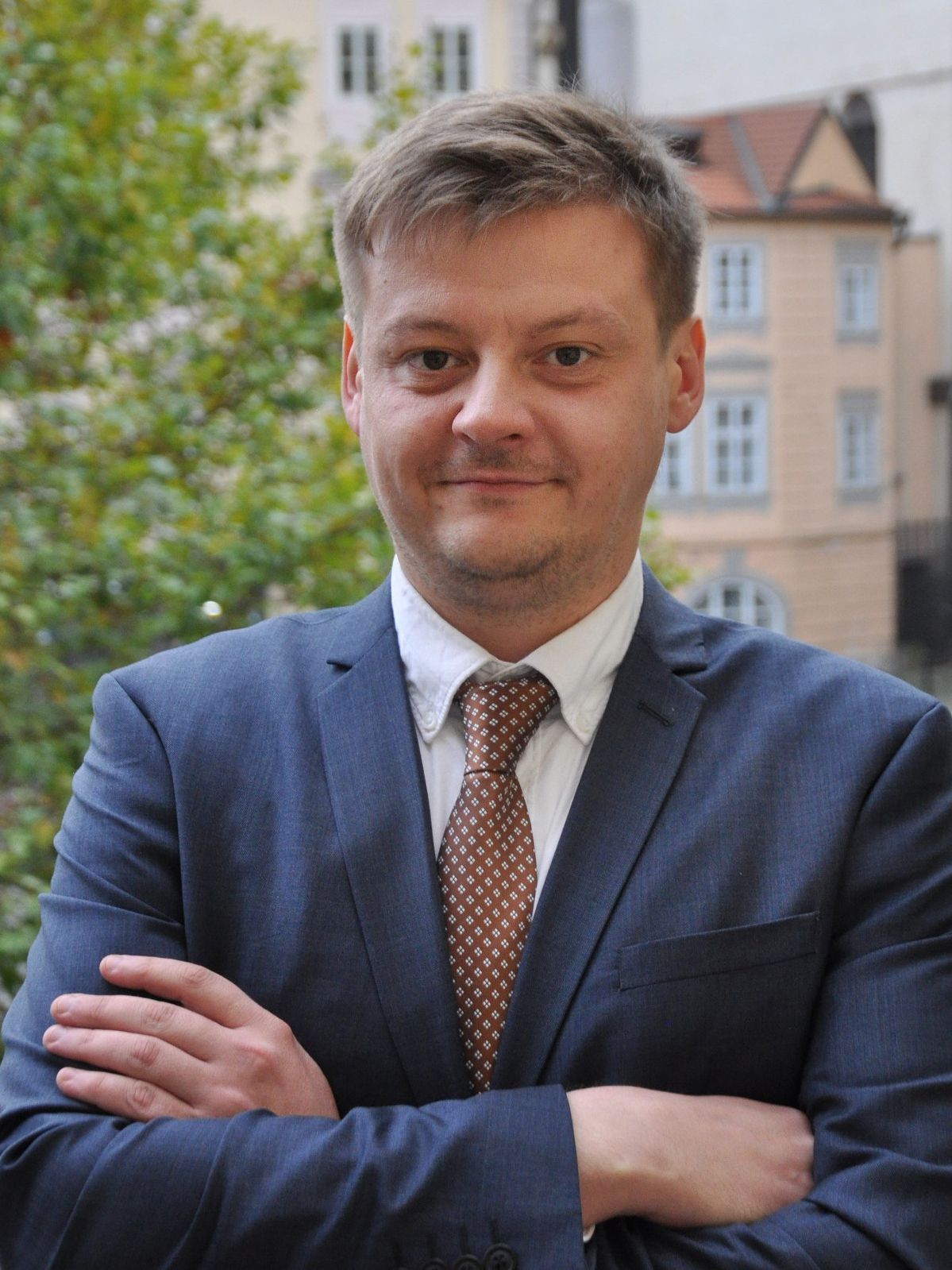 Portrait of Radek Holomčík, member of the Czech Pirate Party, taken on 20 November 2017